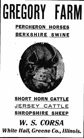 An ad for Berkshires listed in the Berkshire World and Cornbelt Stockman (January 1, 1910)